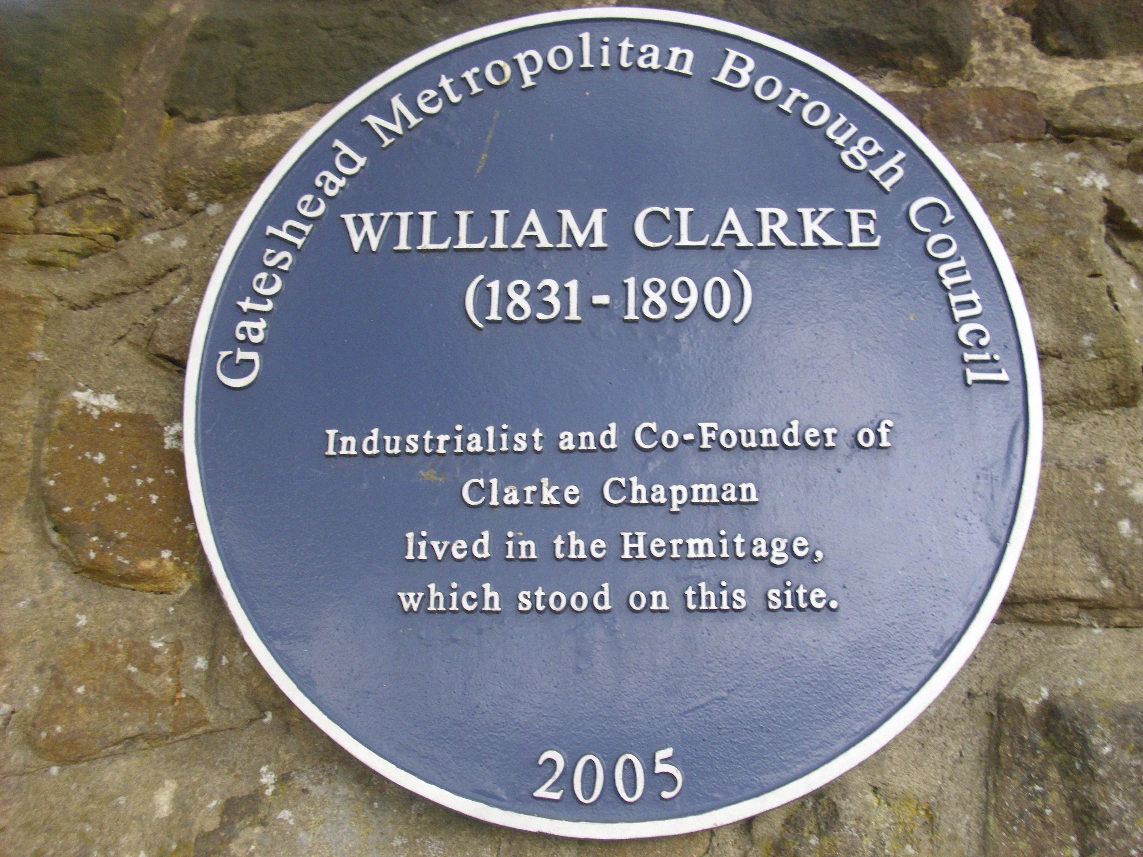 Gateshead Blue Plaque erected in honour of William Clarke, Industrialist, in 2005. The plaque is located on the south wall of the Dell, Sheriff Hill, Gateshead